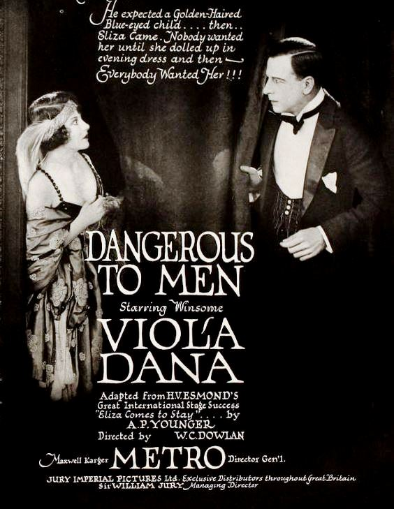 Advertisement for the American comedy film Dangerous to Men (1920) with Viola Dana and Milton Sills, on page 4169 of the May 15, 1920 Motion Picture News.